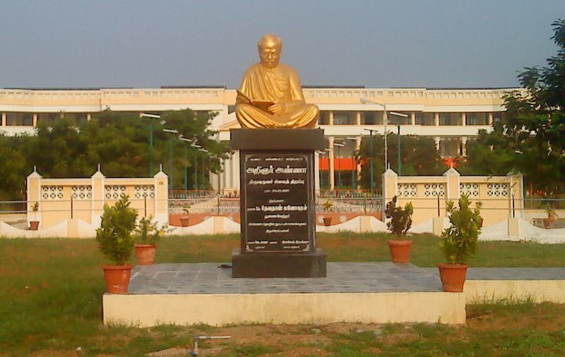 Anna's Statue in the entrance of Anna University of Technology Tiruchirappalli.